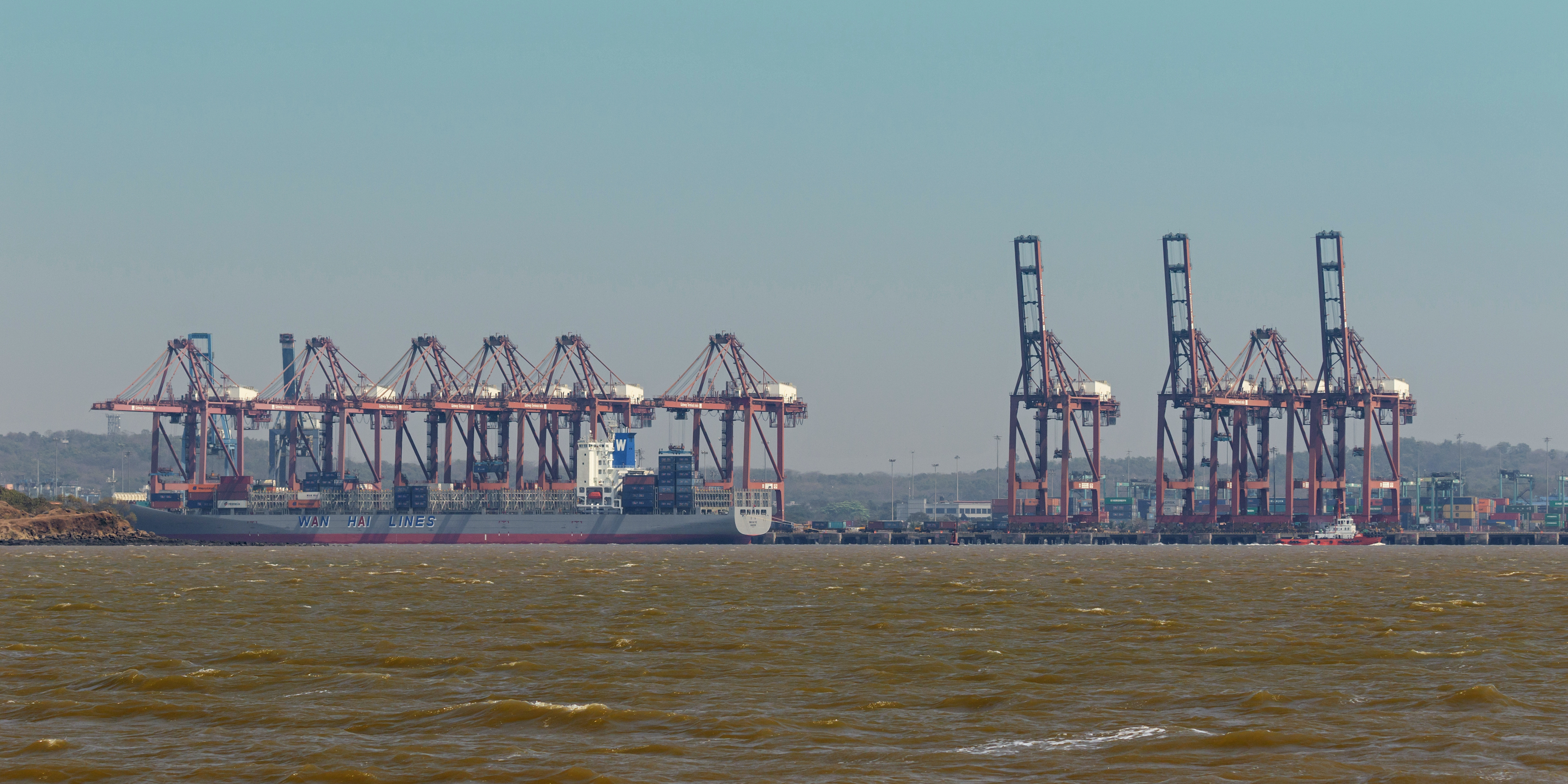 View to the Navi Mumbai port. Taken from Mumbai-Elephanta ferry. Maharashtra, India.